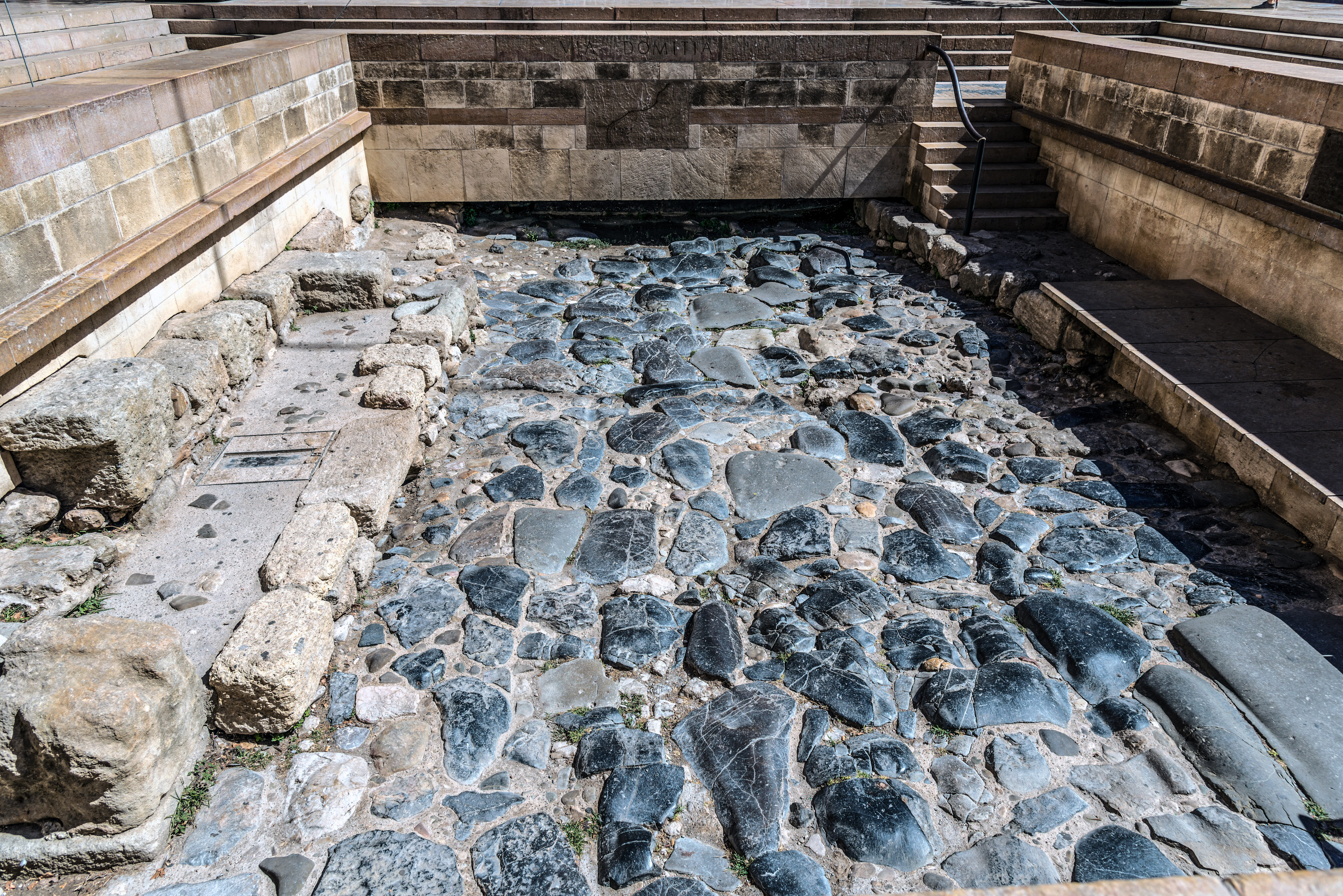 The Via Domitia was the first Roman road built in Gaul, to link Italy and Hispania through Gallia Narbonensis, across what is now southern France.